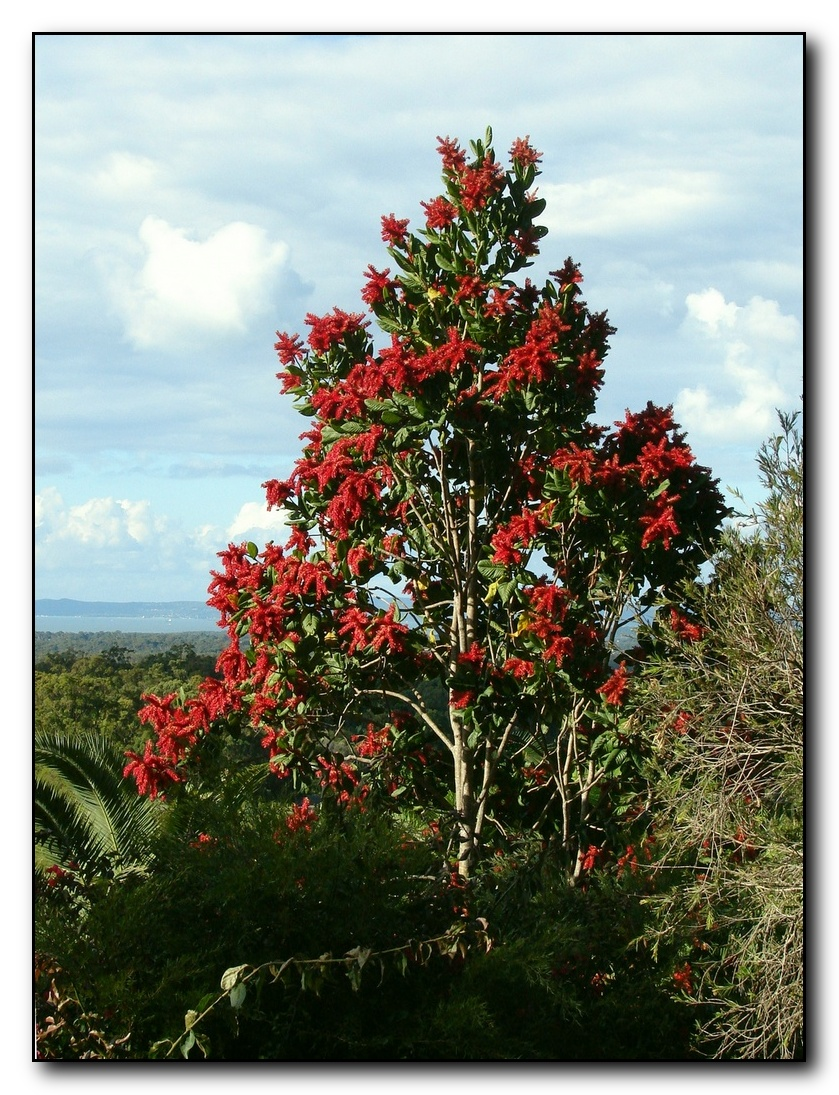 Triplaris - female trees. Another beautiful South American tree. One of the largest and most spectacular members of the Polygonaceae or Buckwheat family. The portuguese name 'Pau Formiga' means Antwood. Other common names: Mulatto Tree or Long John I think it is Triplaris weigeltiana (syn. T. surinamensis), but possibly another species. GRIN Taxonomy Trees of Brazil Location: Mt Cotton Rainforest Gardens